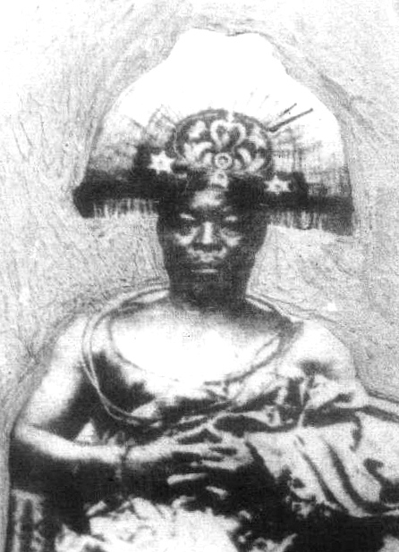 Ovonramwen Nogbaisi (1888-1914), also called Overami, was the last Oba (king) of the Kingdom of Benin, which was dissolved following his rule. note picture was cropped and modified